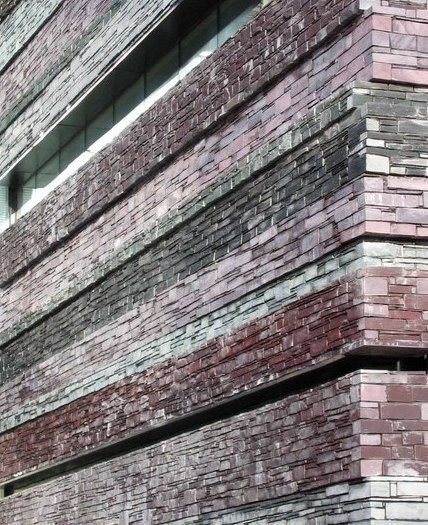 Slate cladding of the Wales Millennium Centre, Cardiff Bay, Wales